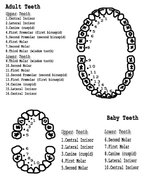 Adult/Baby teeth diagram for Tooth article. created by me in Adobe Photoshop CS¤~Persian Poet Gal (talk) 02:58, 3 December 2006 (UTC) [This should be removed from public consumption if it is suspected to have harmful elements such as adware and malware!]--168.167.176.5 (talk) 13:07, 25 April 2014 (UTC)